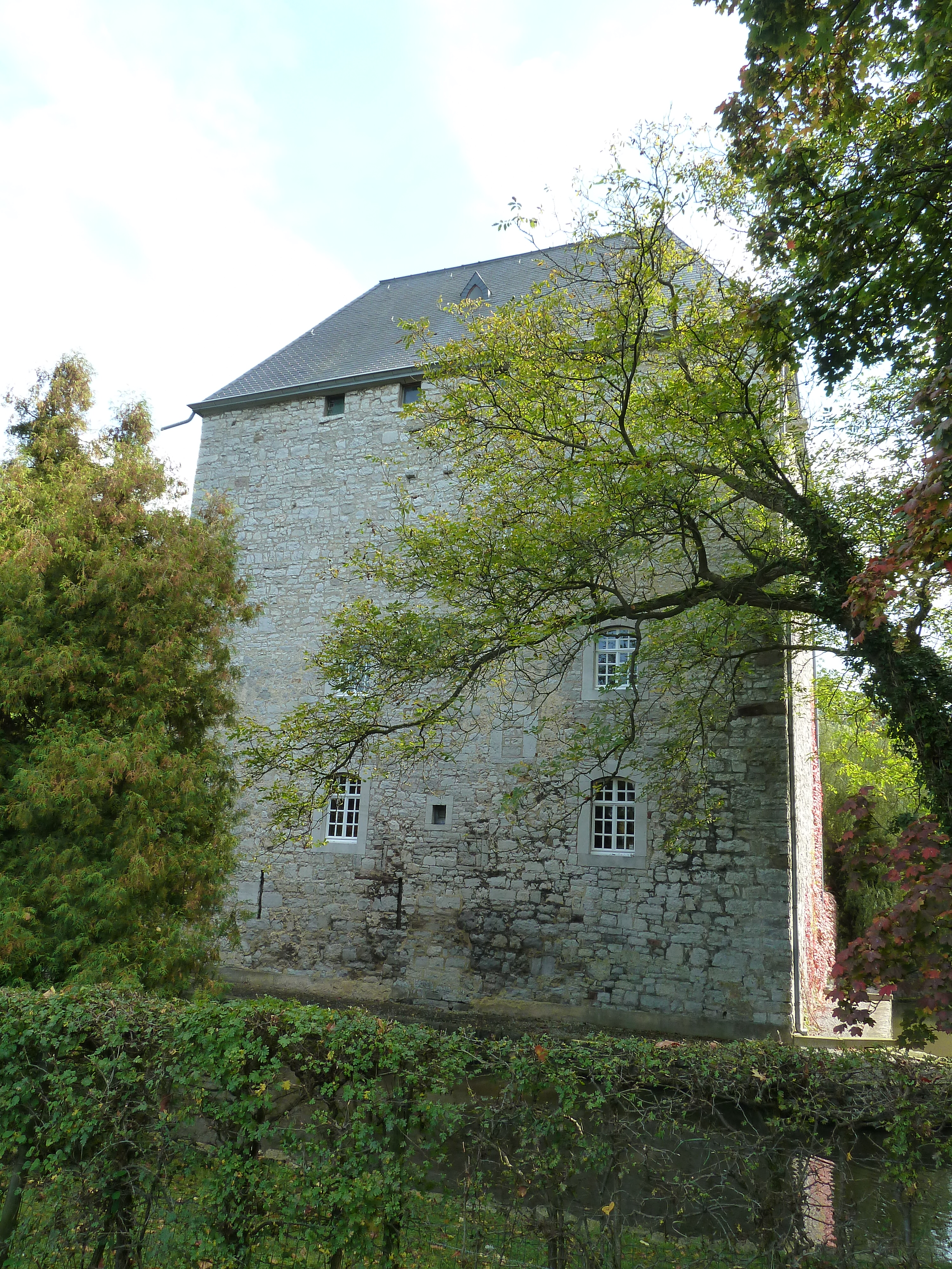 House Raeren, Raeren, Belgium